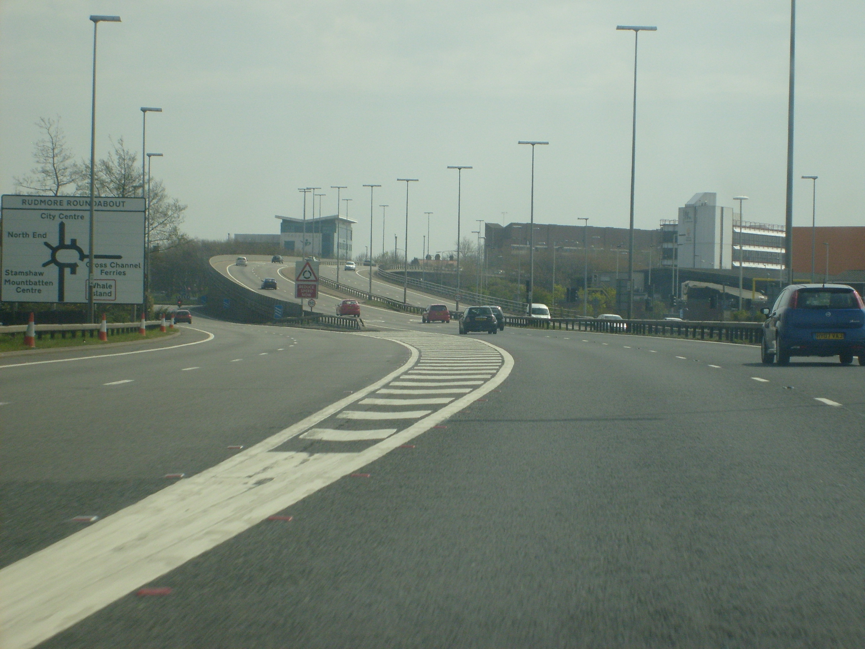 The M275 approaching Portsmouth.